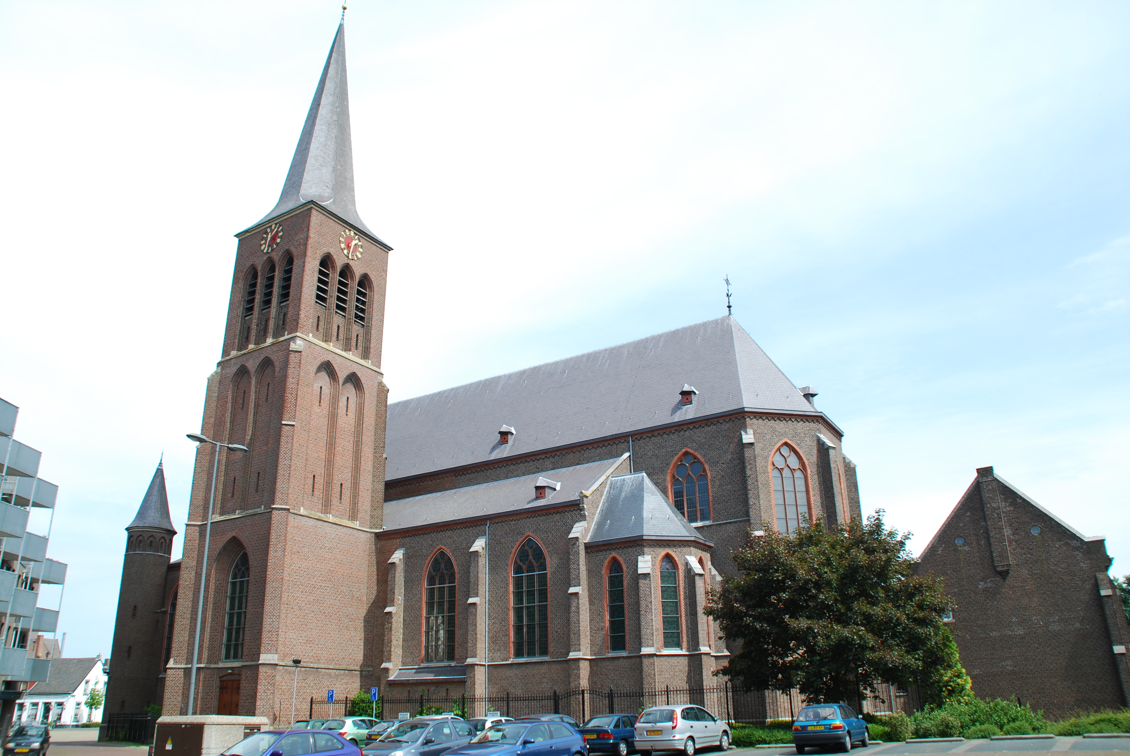 Lambertuskerk - Swalmen